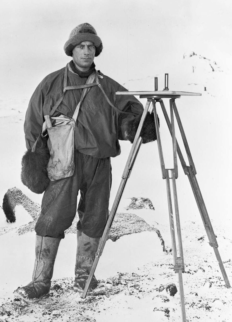 Frank Debenham and a plane table, during the Terra Nova Expedition 1910-1913 under command of Robert Falcon Scott